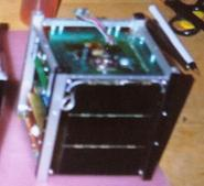 This picture of the SACRED satellite (Known as Alcatel in these days) was taken by Ben Pearson from the Cubesat Program of the University of Arizona.